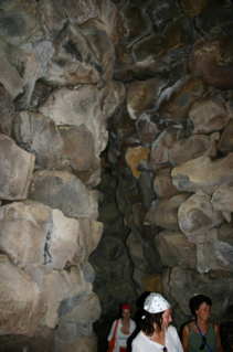 Going from one tower to another inside the Su Nurraxi nouraghe.